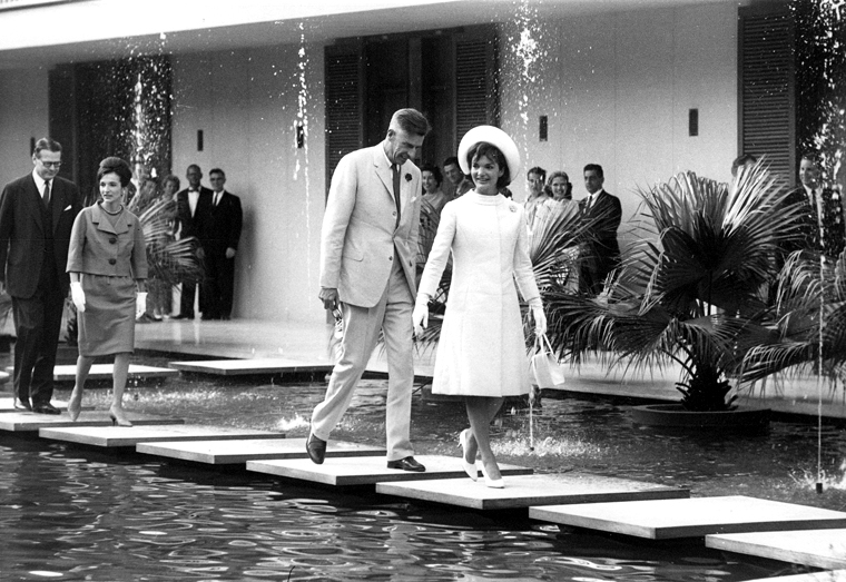 PC 2047 American Ambassador to India John Kenneth Galbraith and First Lady Jacqueline Kennedy at the U. S. Chancery, New Delhi. USIS Photograph in the John F. Kennedy Presidential Library and Museum, Boston.